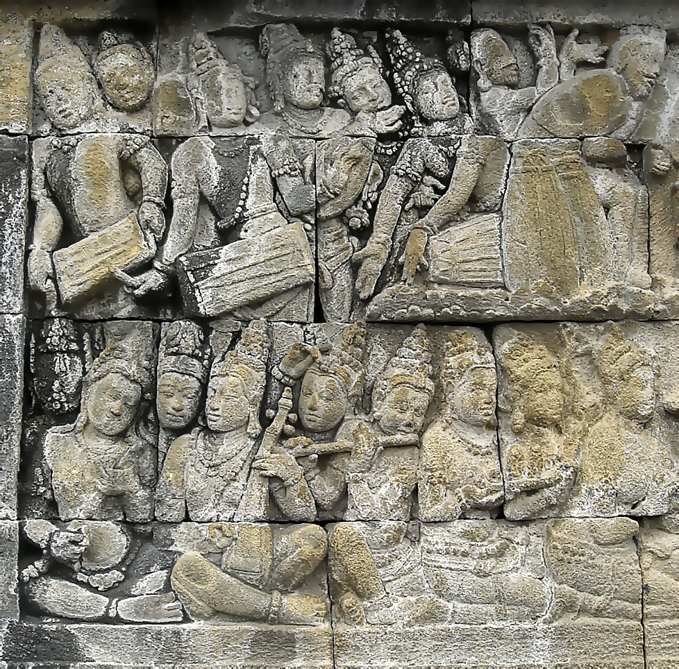 Borobudur relief showing musicians